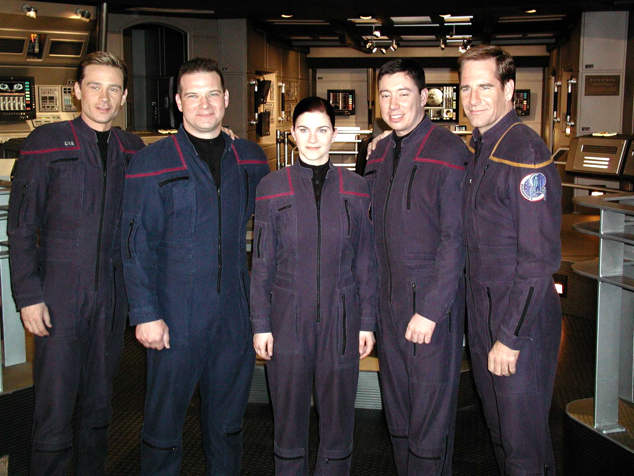 Sailors of the Year for the year 2001 meet castmembers of the latest ‘Star Trek’ television series entitled “Enterprise.” Pictured here on the set of the series are (from left) Conner Trinneer, who plays Chief Engineer Charles “Trip” Tucker, III; Aviation Electronics Technician 1st Class Robert S. Pickering, Sailor of the Year; Personnelman 3rd Class Sarah E. Pizzo, Blue Jacket of the Year; Aviation Electrician’s Mate 2nd Class Timothy J. Whittington, Junior Sailor of the Year; and Scott Bakula, who plays Capt. Jonathan Archer. The three Sailors were given the opportunity to appear in a scene during an episode which aired recently.